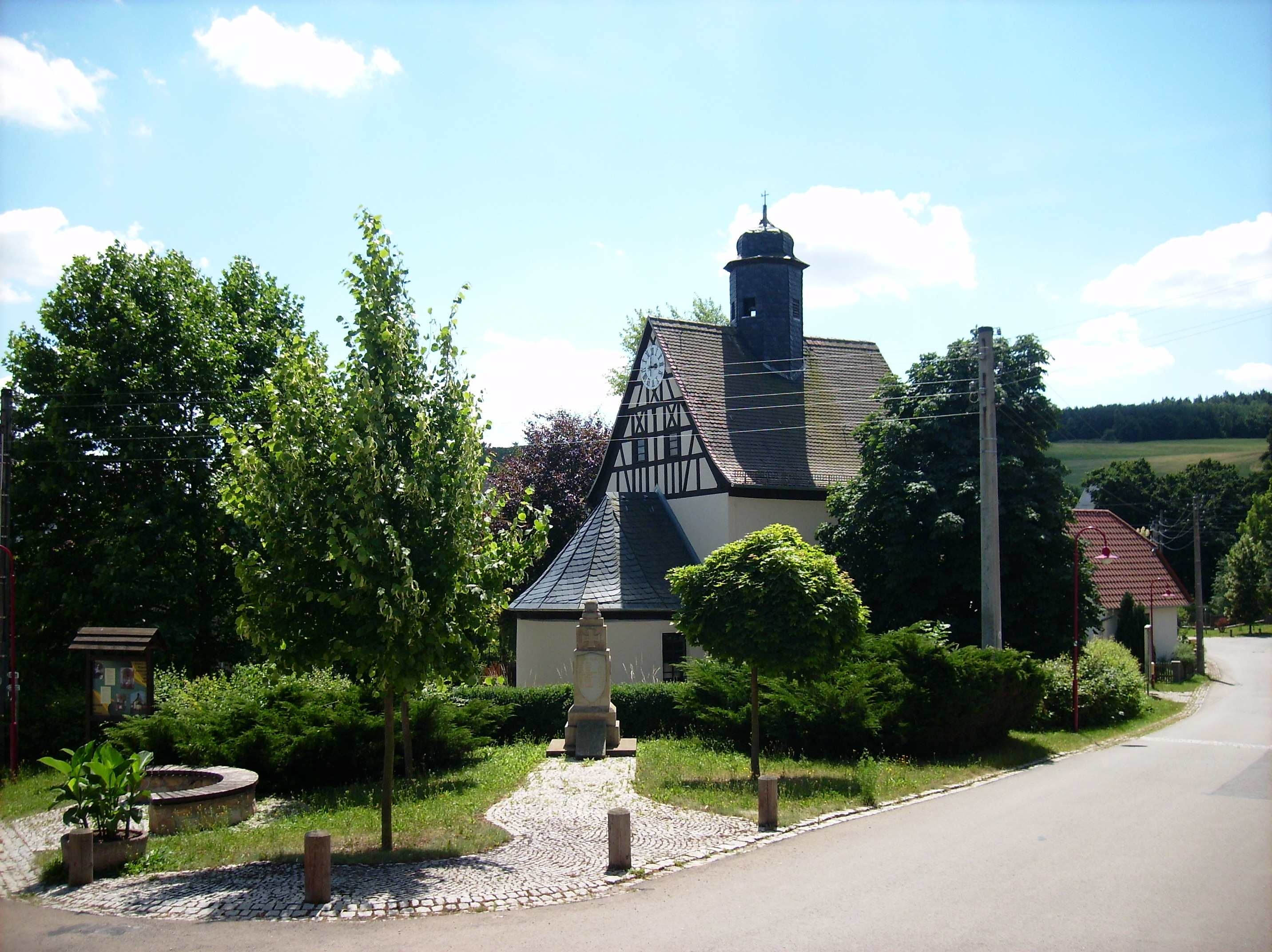 Church of the village of Gleina (Bad Köstritz, Greiz district, Thuringia)